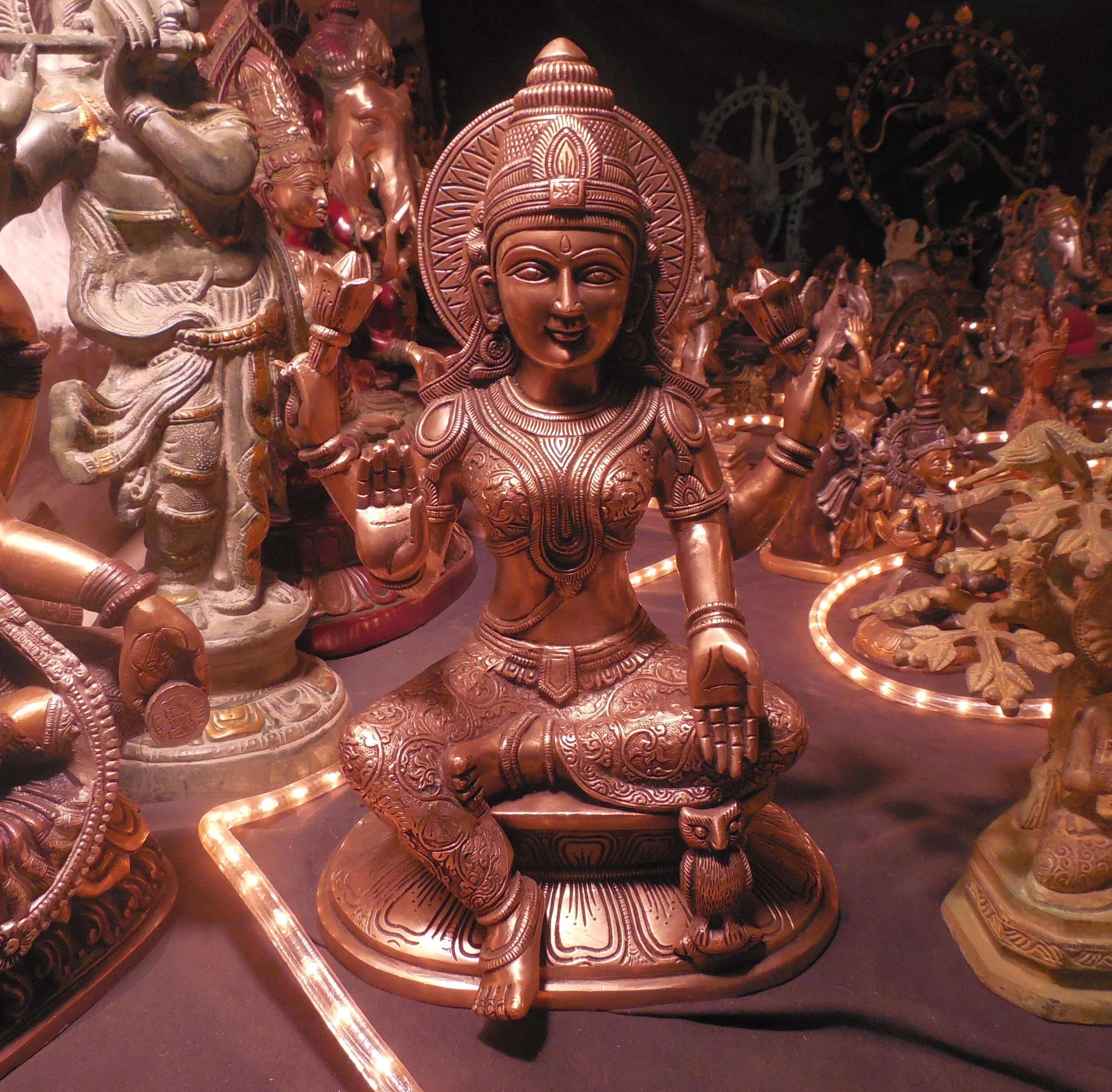 Sri Lakshmi murti with her owl Vahana, Uluka (from the collection of Dr. Manoj Chalam) at BhaktiFest West, Joshua Tree, California, 2017.